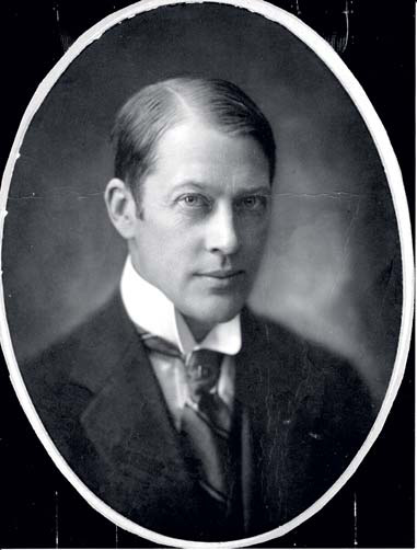 Photograph of the Finnish architect Wäinö Gustaf Palmqvist (1882–1964).